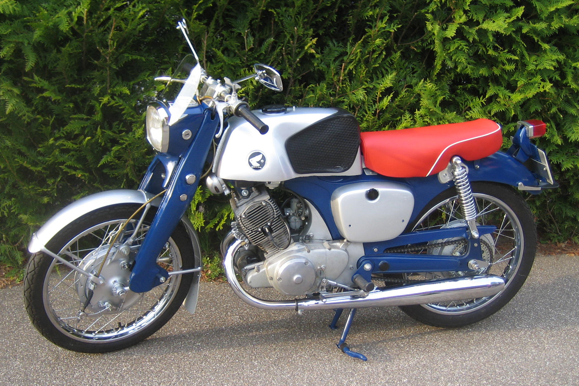 Honda CB92 1961